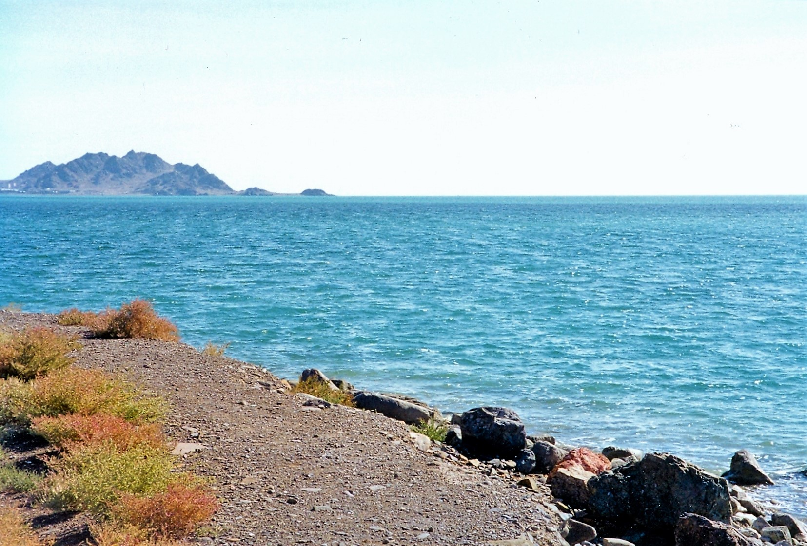 Caspian Sea shore, Turkmenbashi, Turkmenistan.